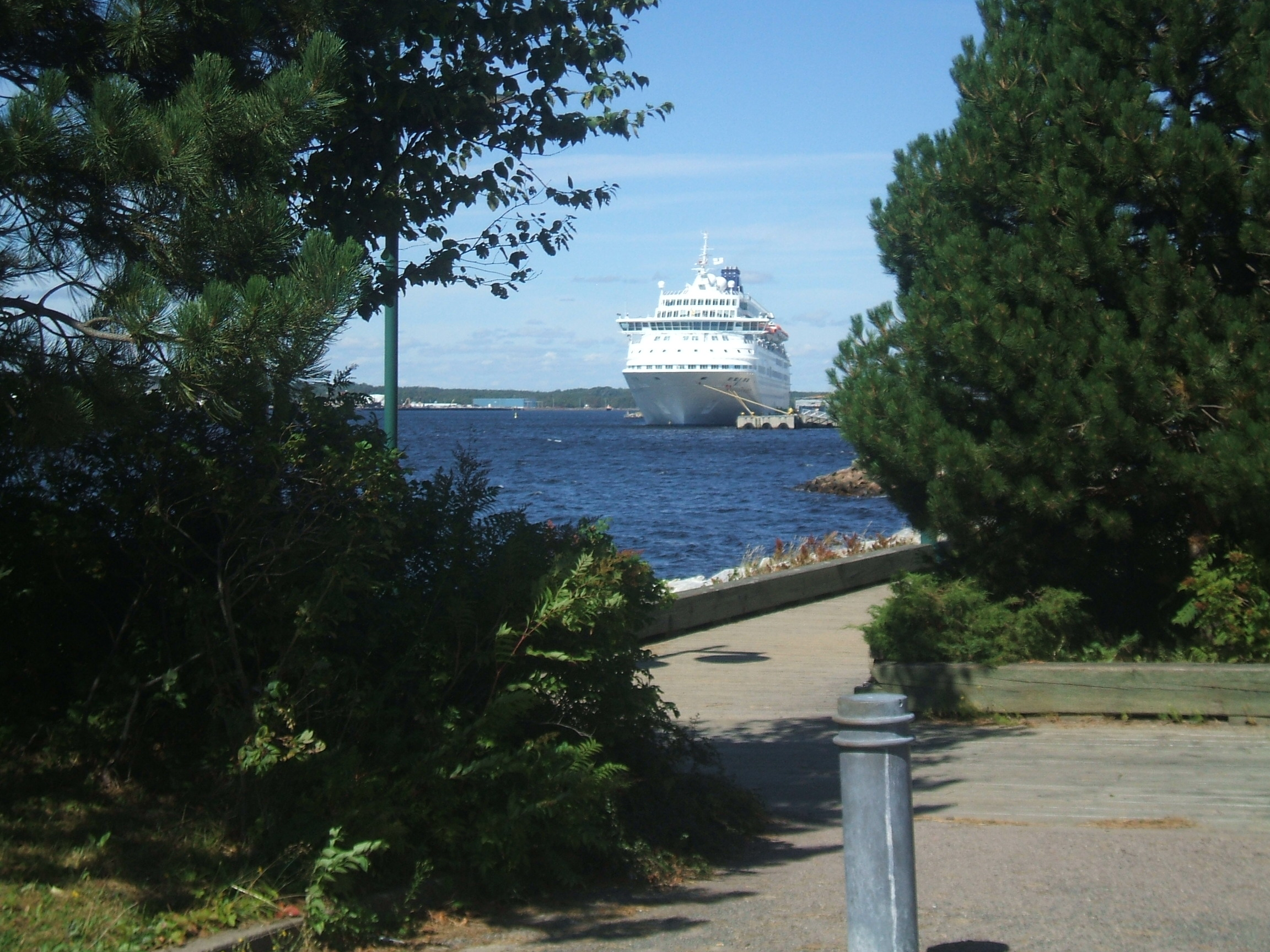 Norwegian Majesty docked in Sydney, Nova Scotia